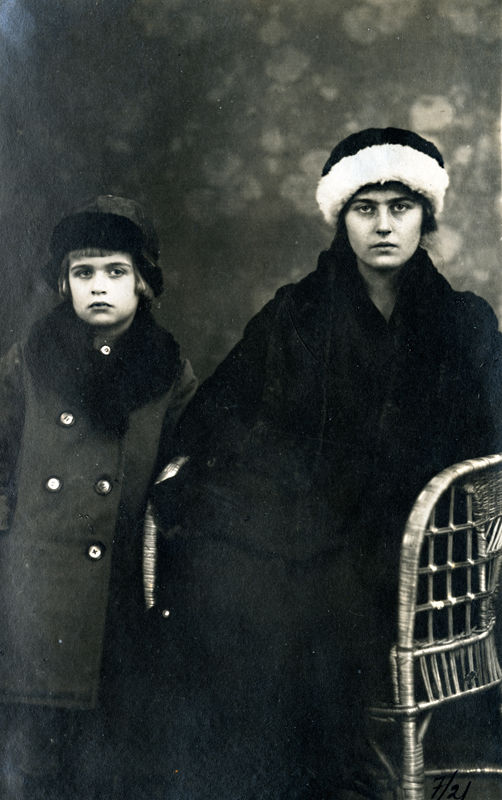 Picture of Alfredas Marija Tiškevičius and Antanina Tiškevičiūtė